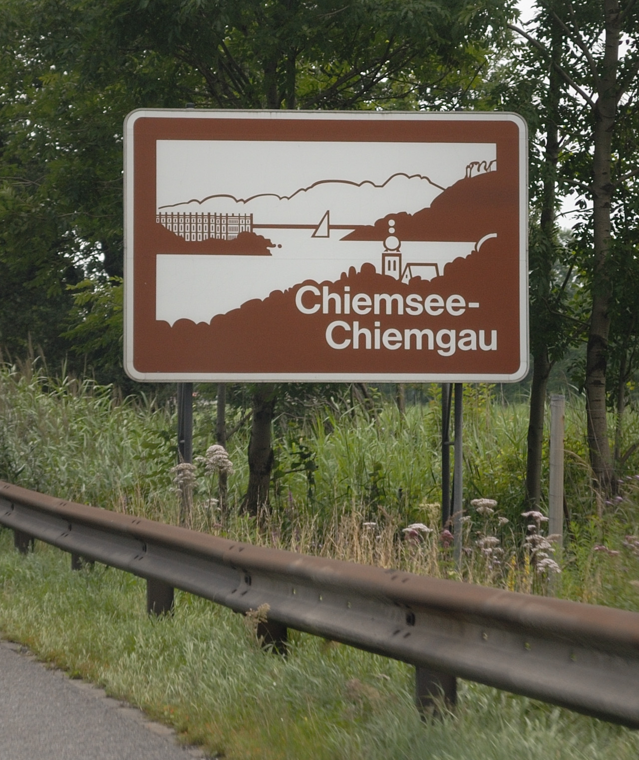 Road sign for Chiemsee and Chiemgau. Road shot from A 8.